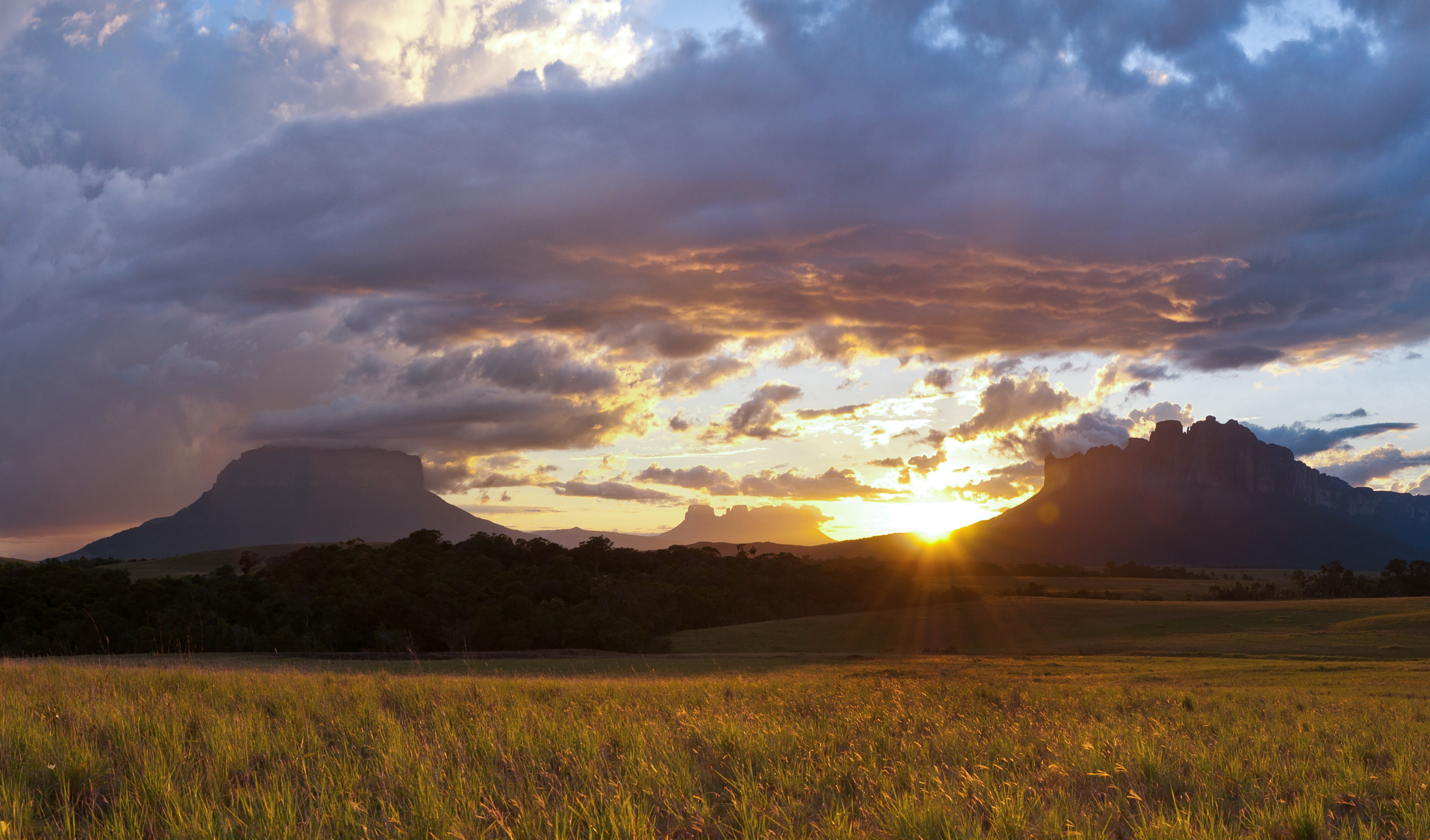 Sunset in Chimantá Massif, in Canaima National Park, in south-east Venezuela